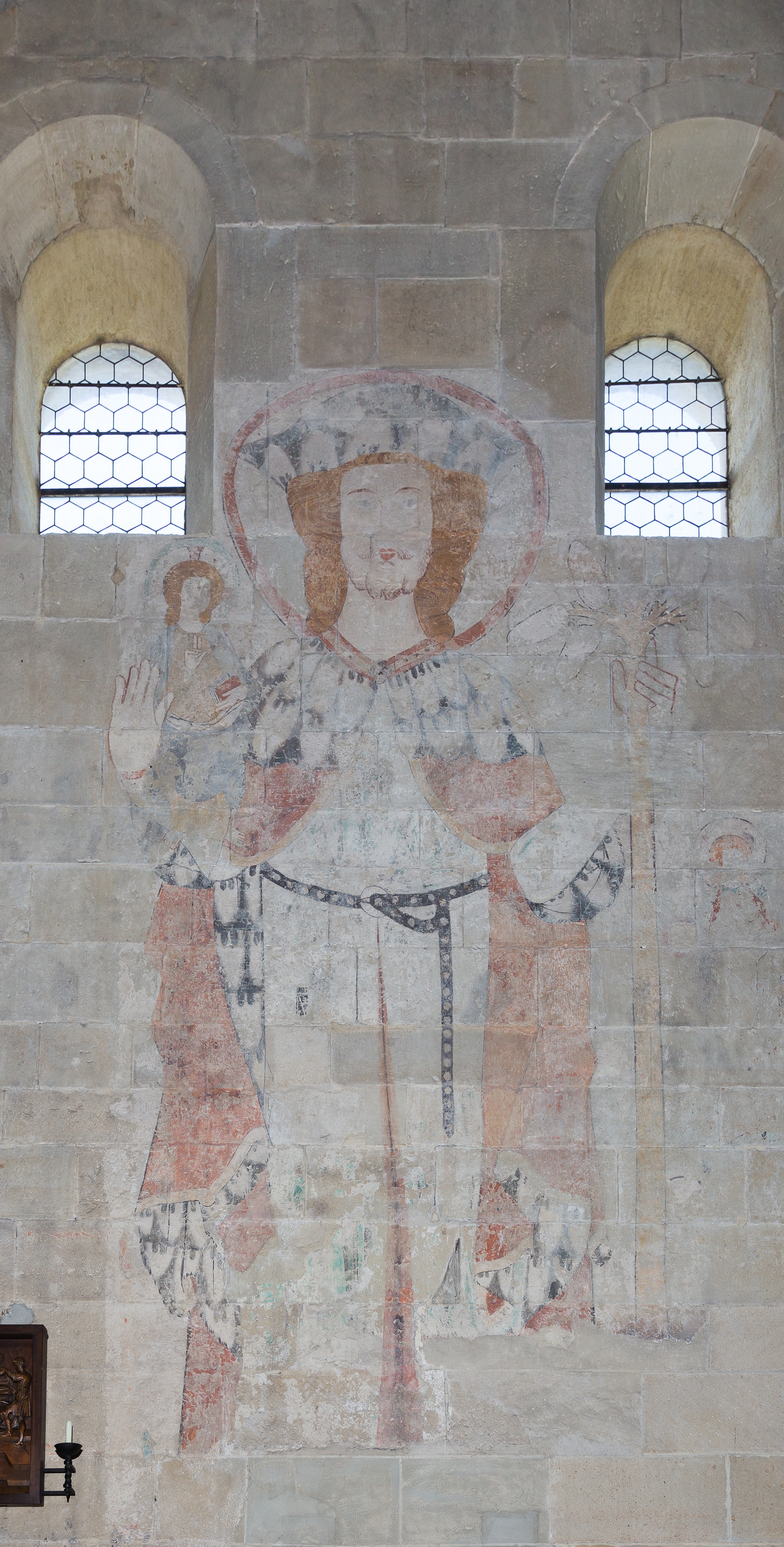 Internal view of the parish church Schöngrabern, Weinviertel, Lower Austria